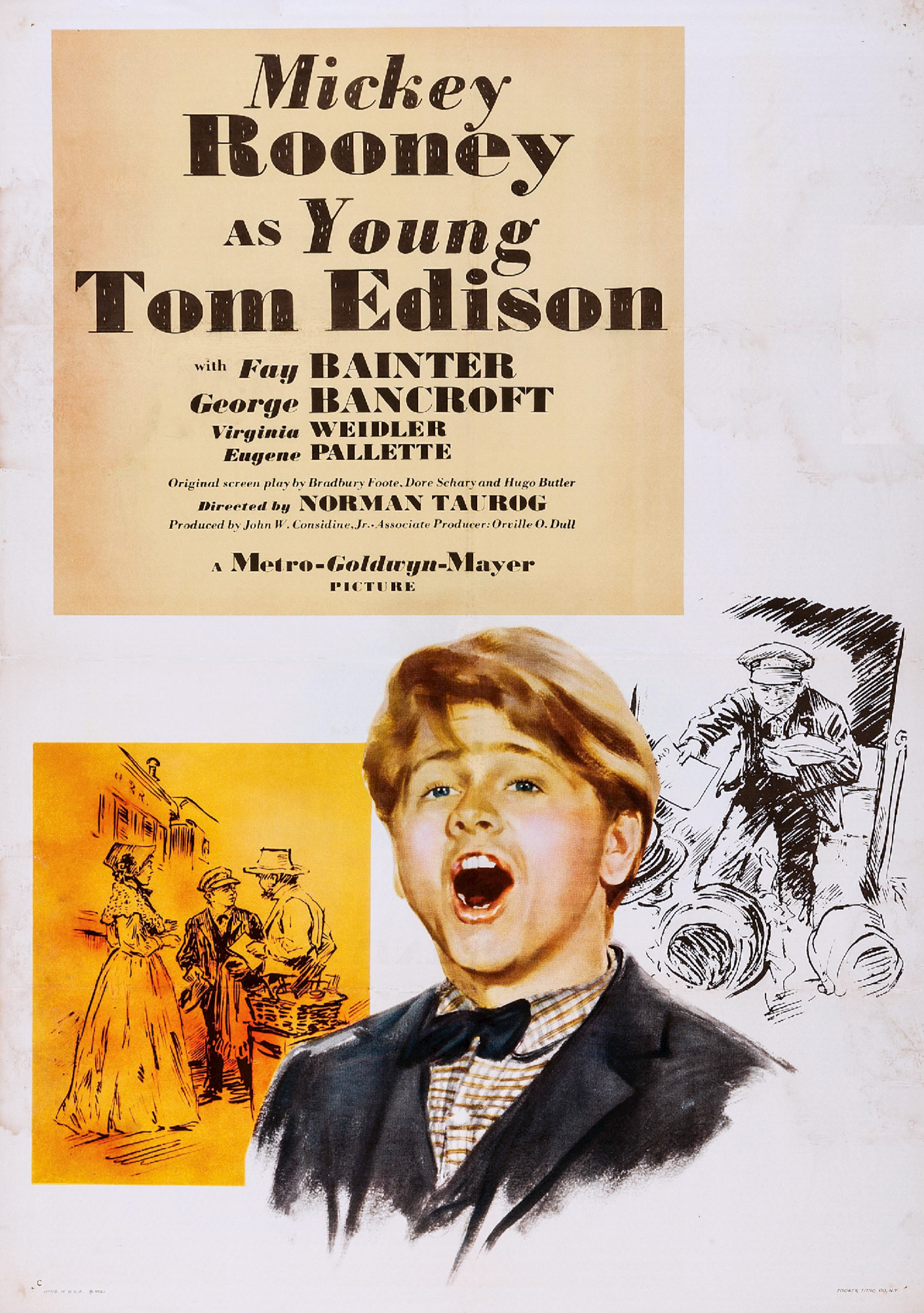 Poster for the 1940 film Young Tom Edison.. The item has no copyright markings on it as can be seen in the links above. At bottom left is "C: (for poster version "C") Litho in USA and {looks like} #4921. At bottom right is Tooker Litho Co. NY-they printed the poster.